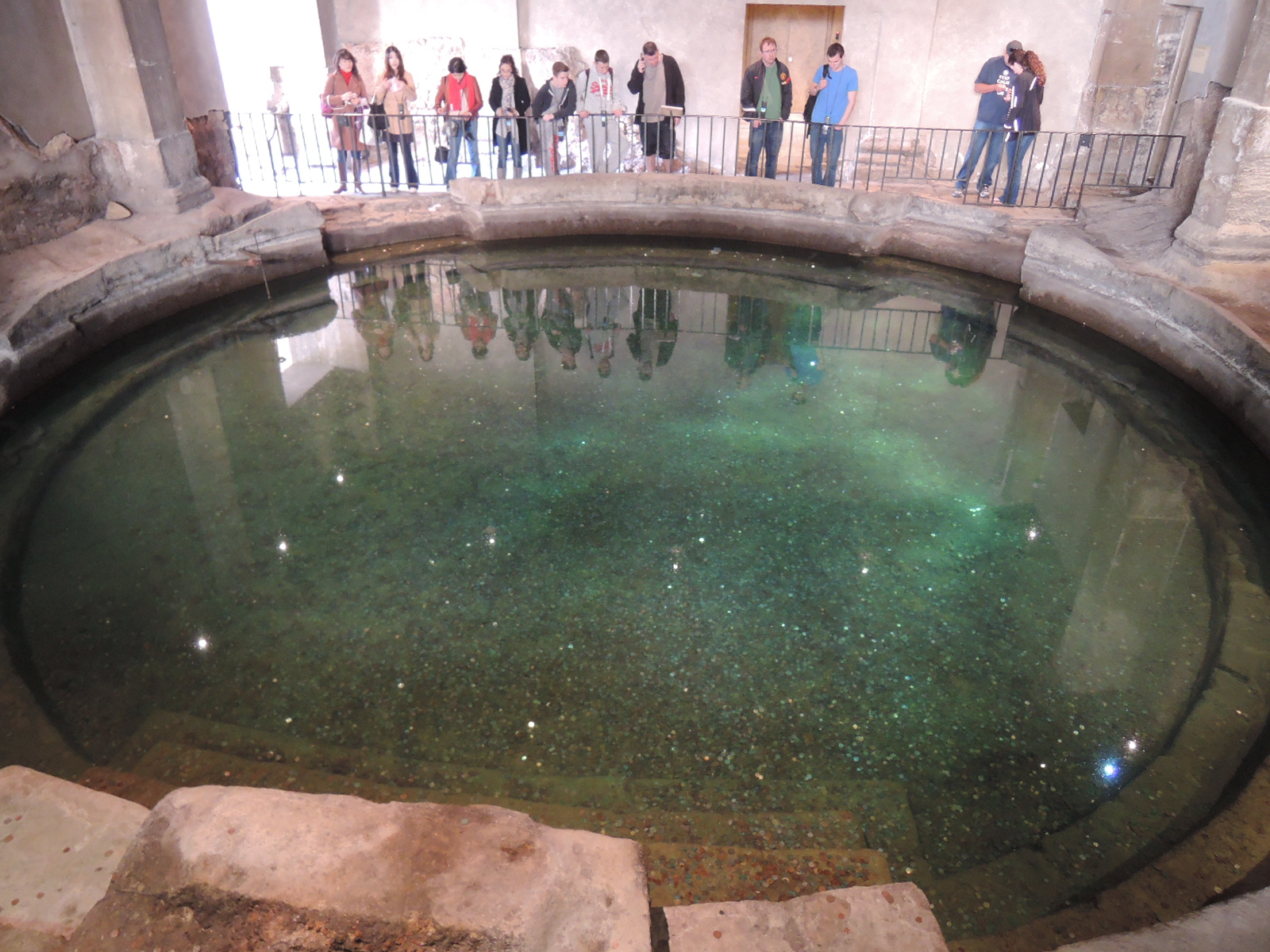 The Roman Circular Bath, A Wishing Well, The Roman Bath